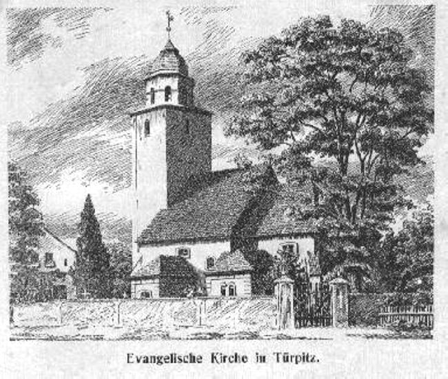 Church in Cierpice (Lower Silesian Voivodeship).